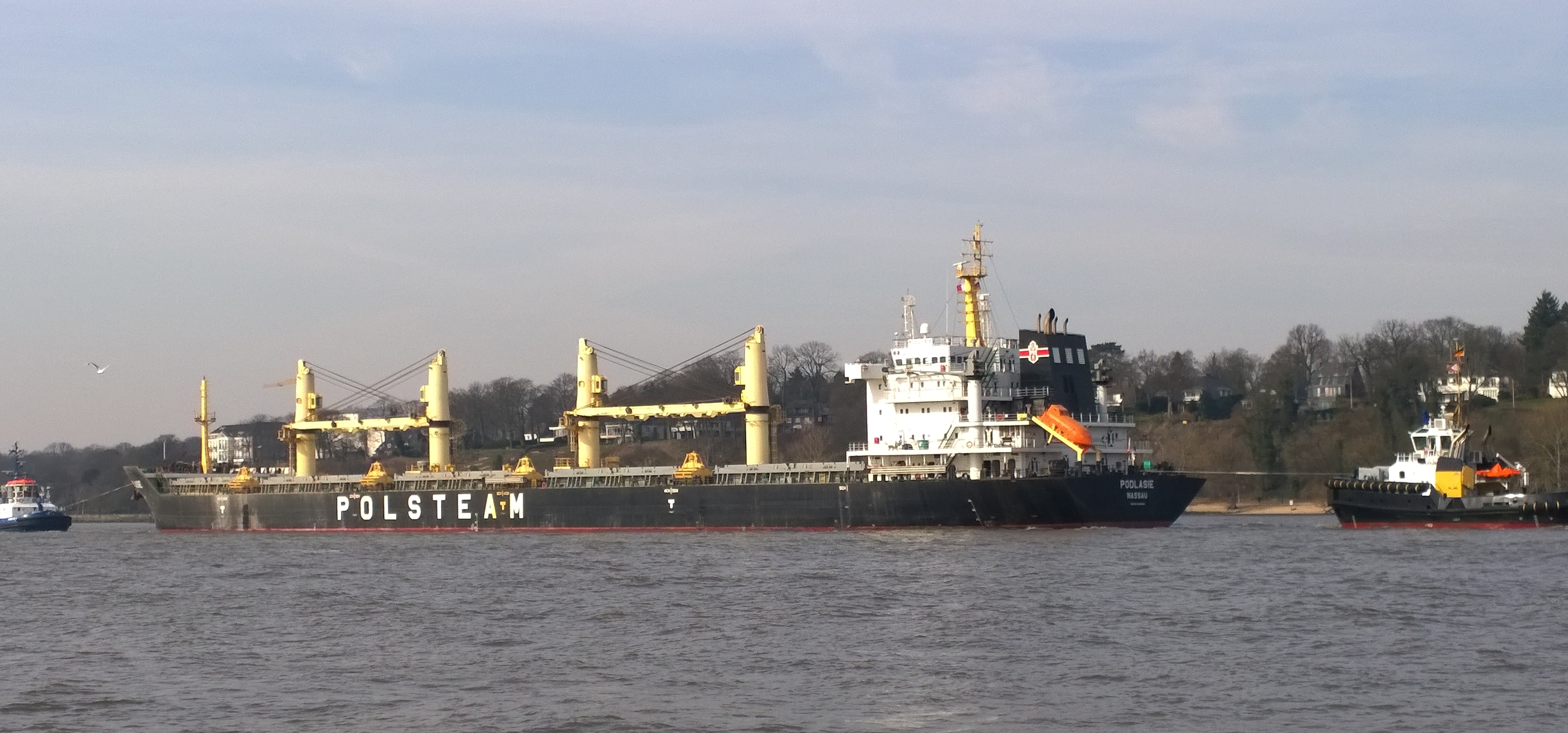 Polish bulk carrier Podlasie with stern tug Michel, river Elbe down in March 2015